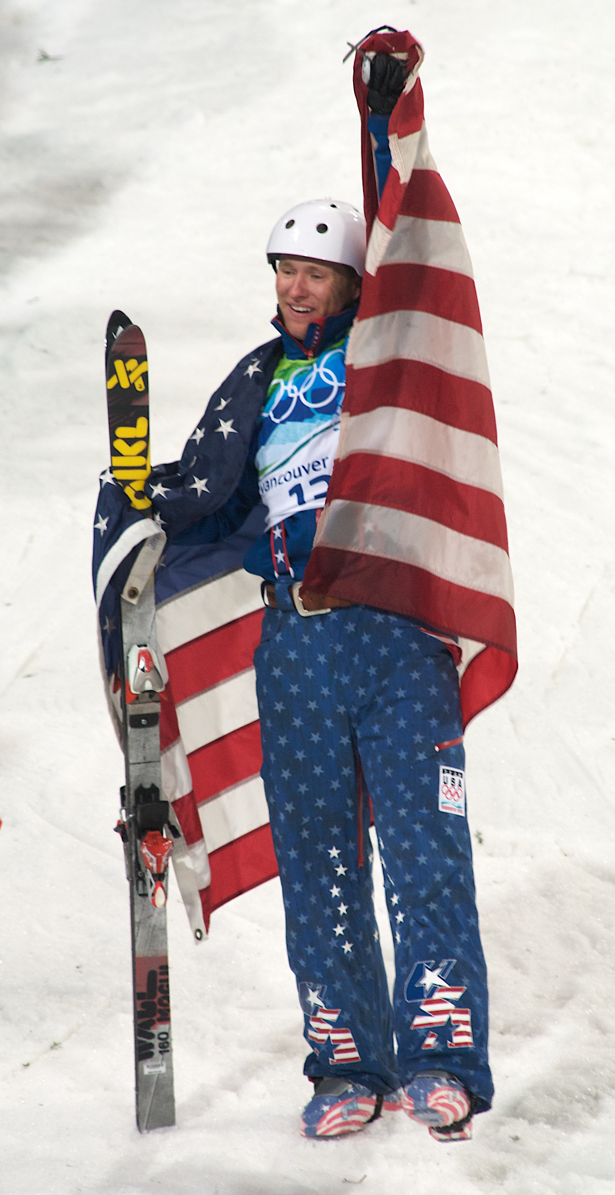 Jeret "Speedy" Peterson celebrates after his silver medal jump at the 2010 Winter Olympics in Vancouver.